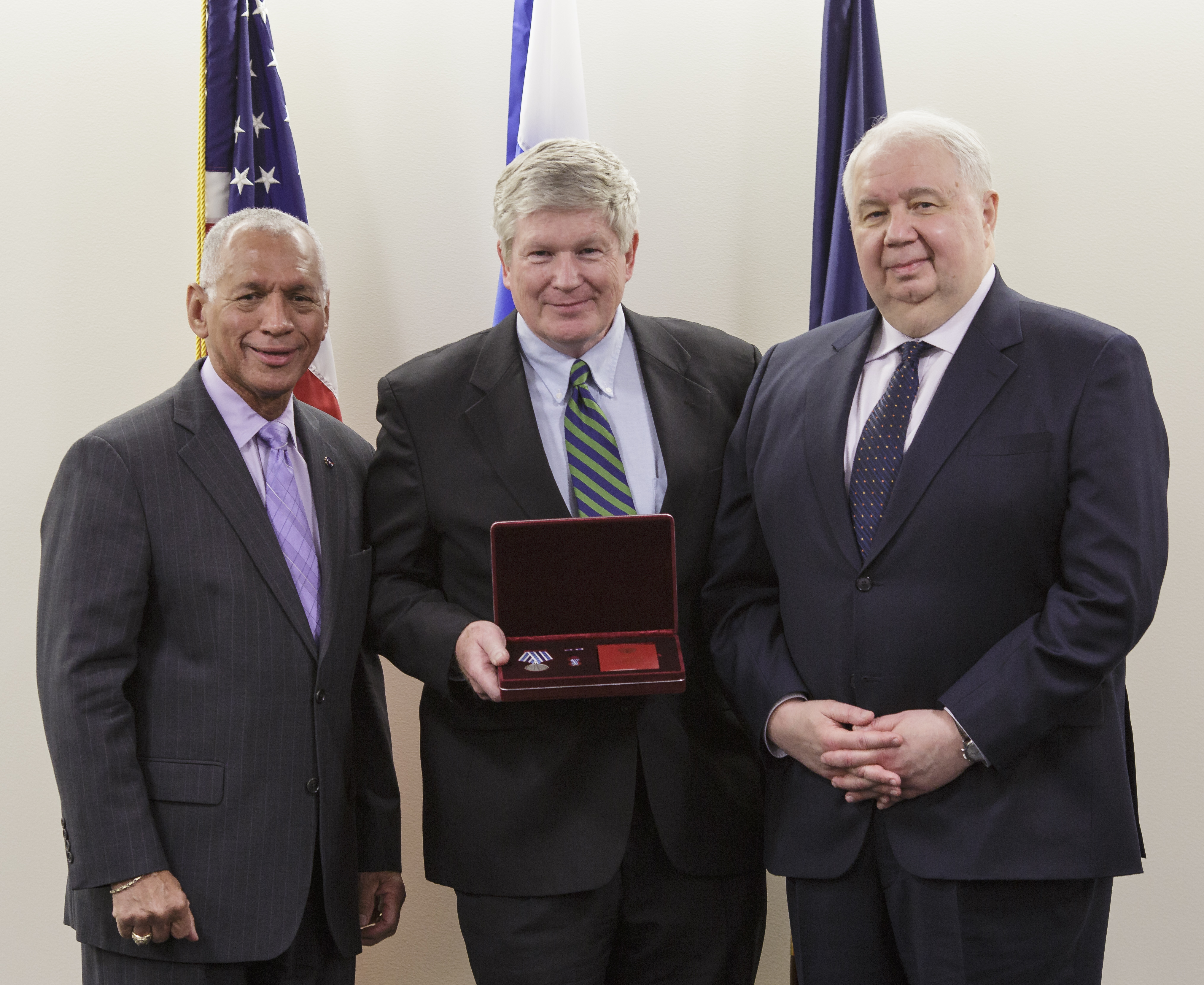 NASA Administrator Charles Bolden, left, former NASA astronaut William Shepherd, center, and Russian Ambassador Sergey Kislyak, right, pose for a picture after Shepherd was awarded the Russian Medal for Merit in Space Exploration by Ambassador Kislyak, Friday, Dec. 2, 2016 at NASA Headquarters in Washington.